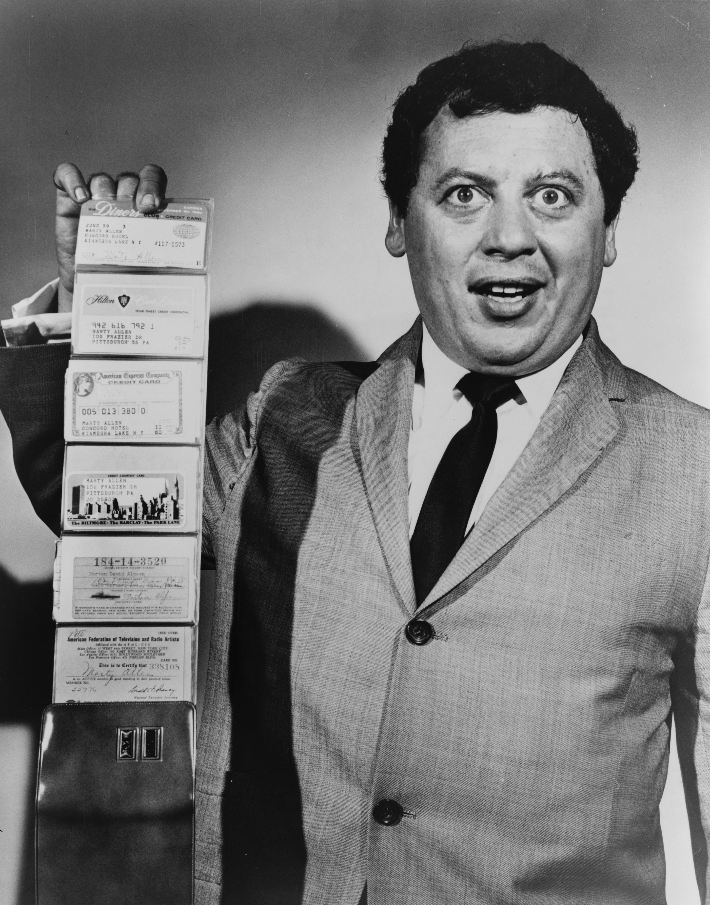 Marty Allen, American comedian, holding wallet with six cards extended in accordion fashion. Visible from top to bottom are "Diner's Club", "Hilton", "American Express", and "Biltmore/Barkley" credit cards; Social Security card, and "American Federation of Television and Radio Artists" union card.